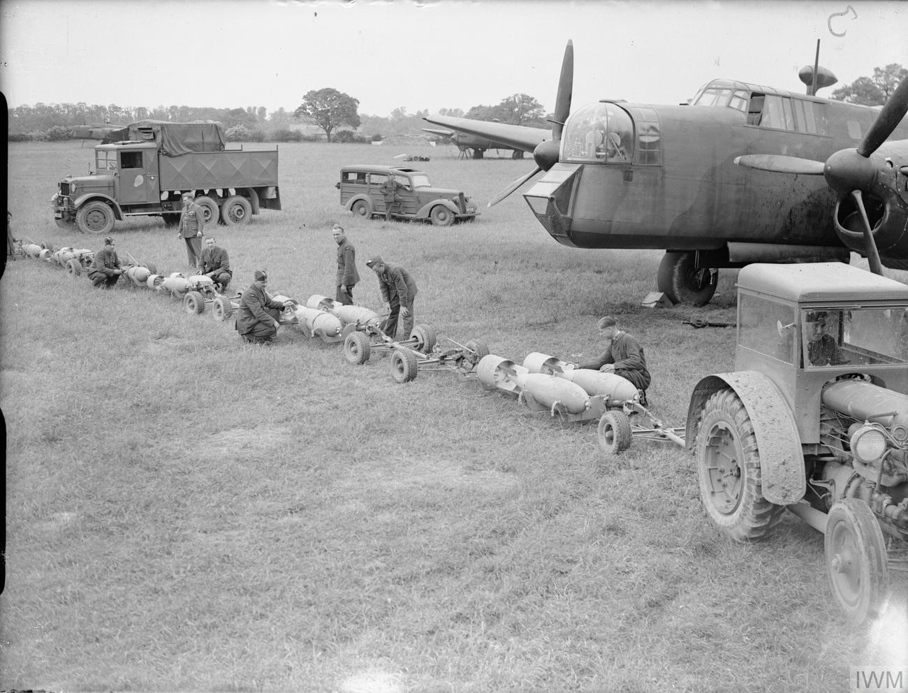 IWM caption : Armourers prepare 500-lb GP bombs on tractor-drawn trolleys, for loading into an Armstrong Whitworth Whitley Mark V of No. 58 Squadron RAF at Linton-on-Ouse, Yorkshire.